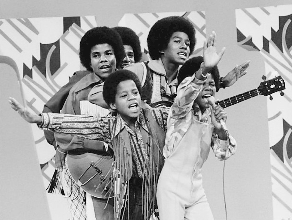 Photo of the Jackson 5 from a guest appearance on The Jim Nabors Show in 1970.